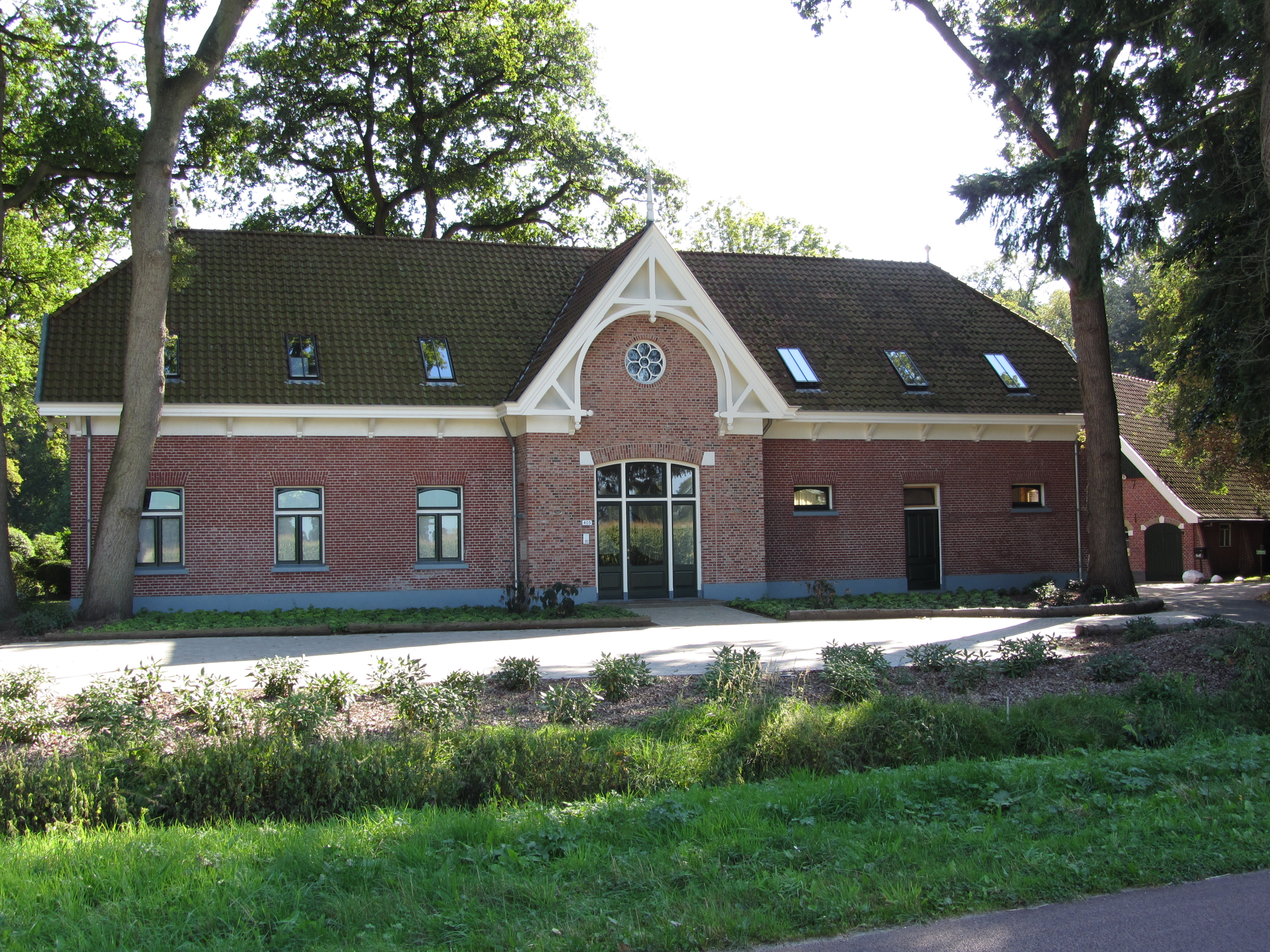 Koetshuis met inpandige koetsierswoning (ca. 1917). Behorend bij Landgoed "Het Stroots"